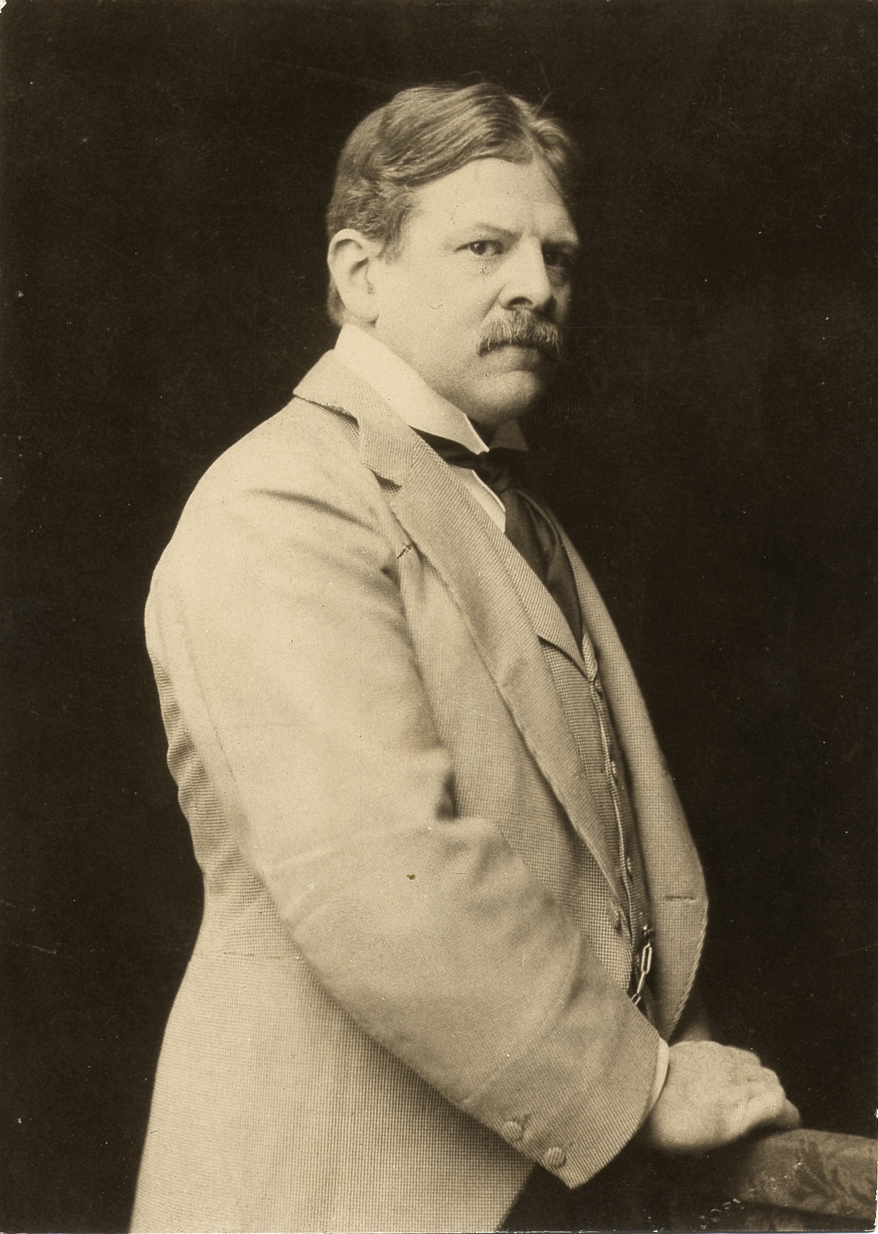 Edwin Austin Abbey, American artist, illustrator, and painter.